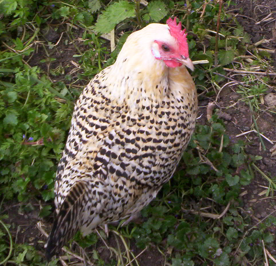 A white, bantam variation of the North Holland Blue species chicken, age appr. 6m.-1y.